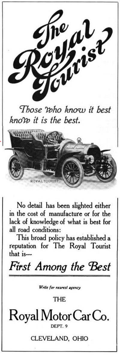 Royal Motor Car Co. - Cleveland, Ohio - 1905